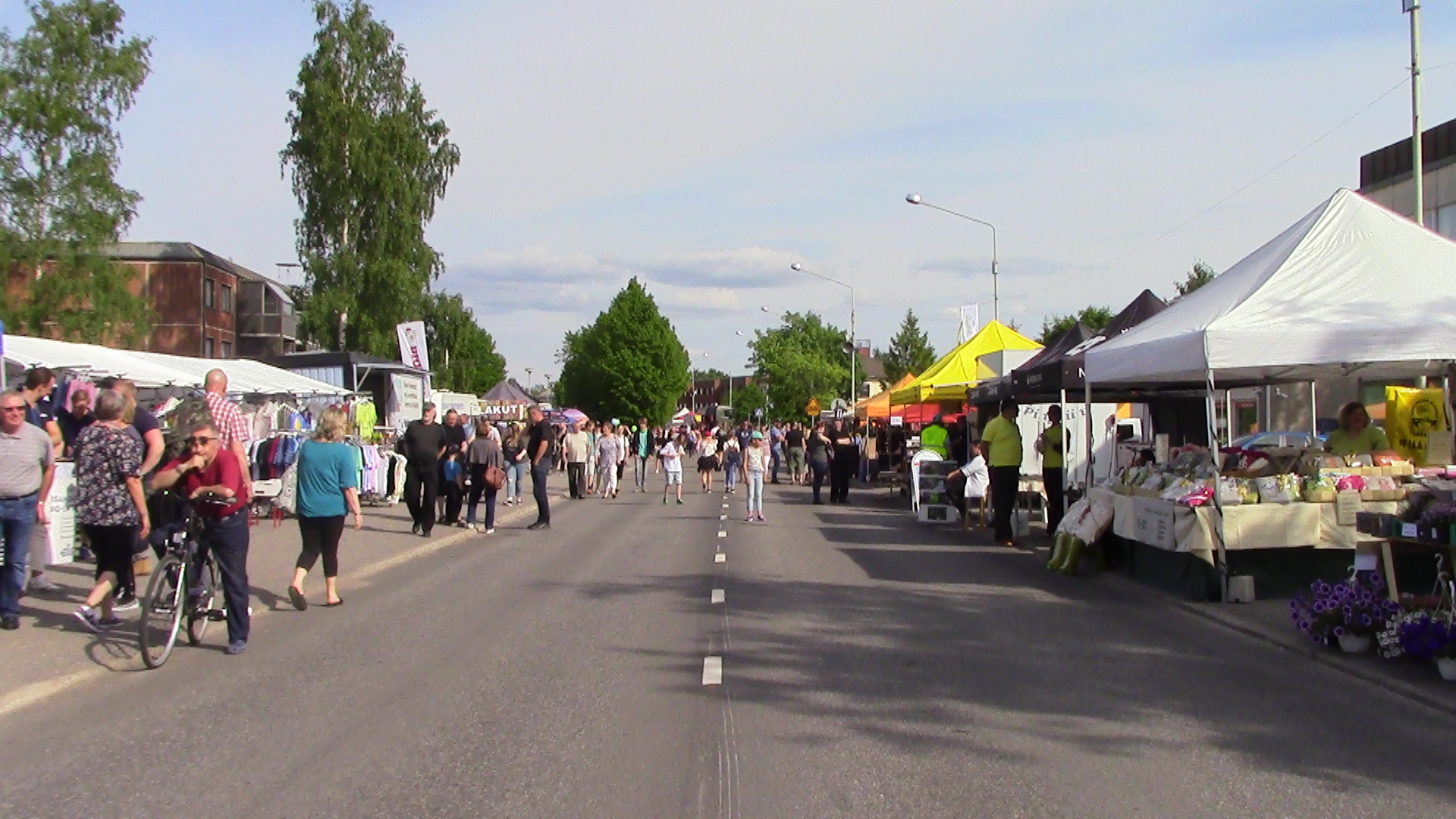 Kaislikossa kuhisee carnival in Säkylä. It's a yearly event which is held during the second week of June.